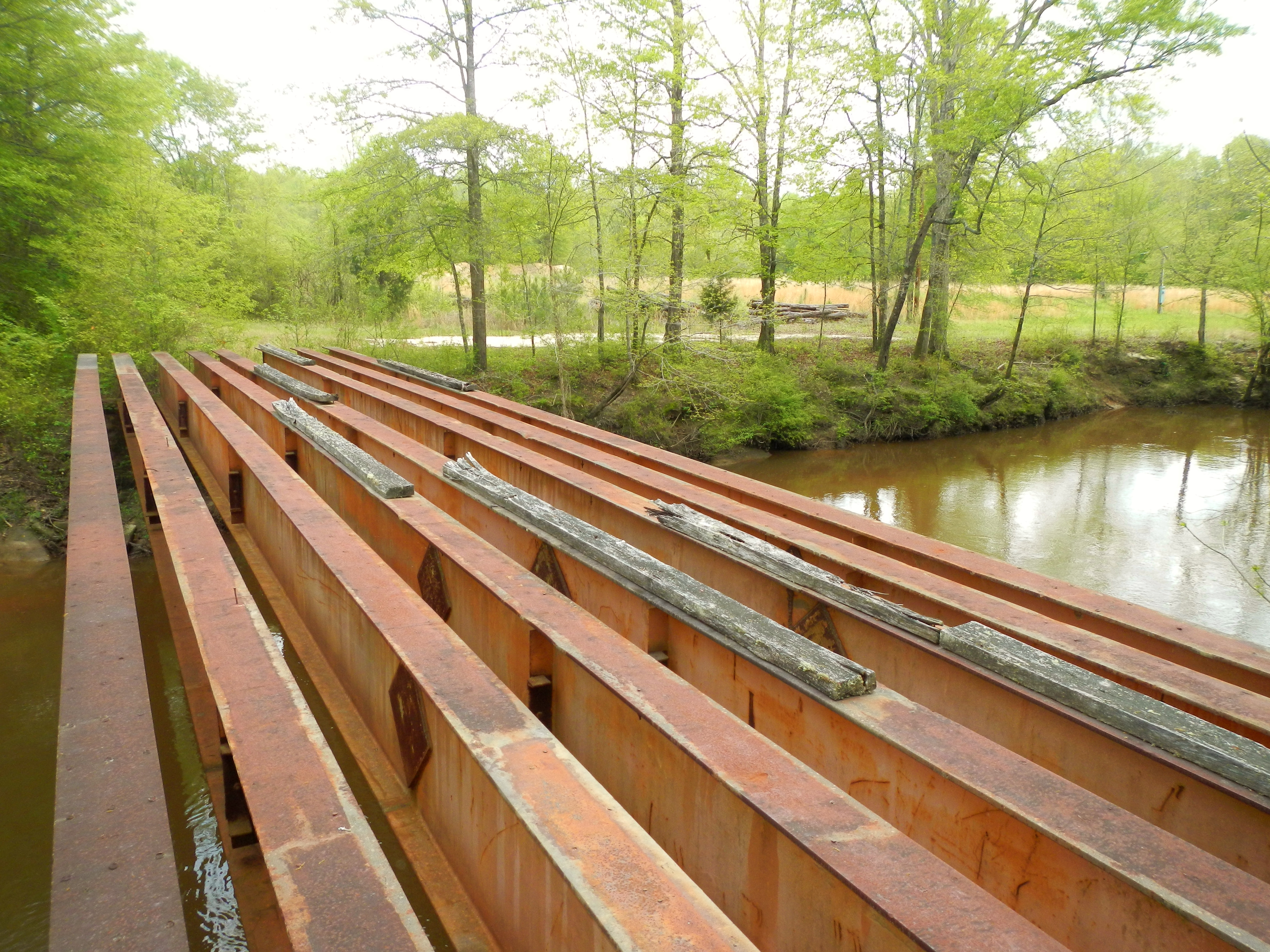 This is the skeletal remains of the White Oak Creek Covered Bridge in Alvaton, GA.